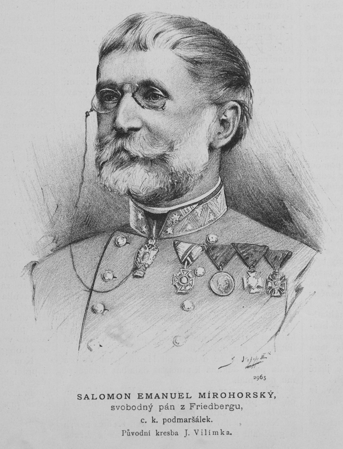 Portrait of Emanuel Salomon Friedberg-Mírohorský (1829 - 1908), Czech military commander in Austrian army, painter and writer, promoter of vegetarianism.